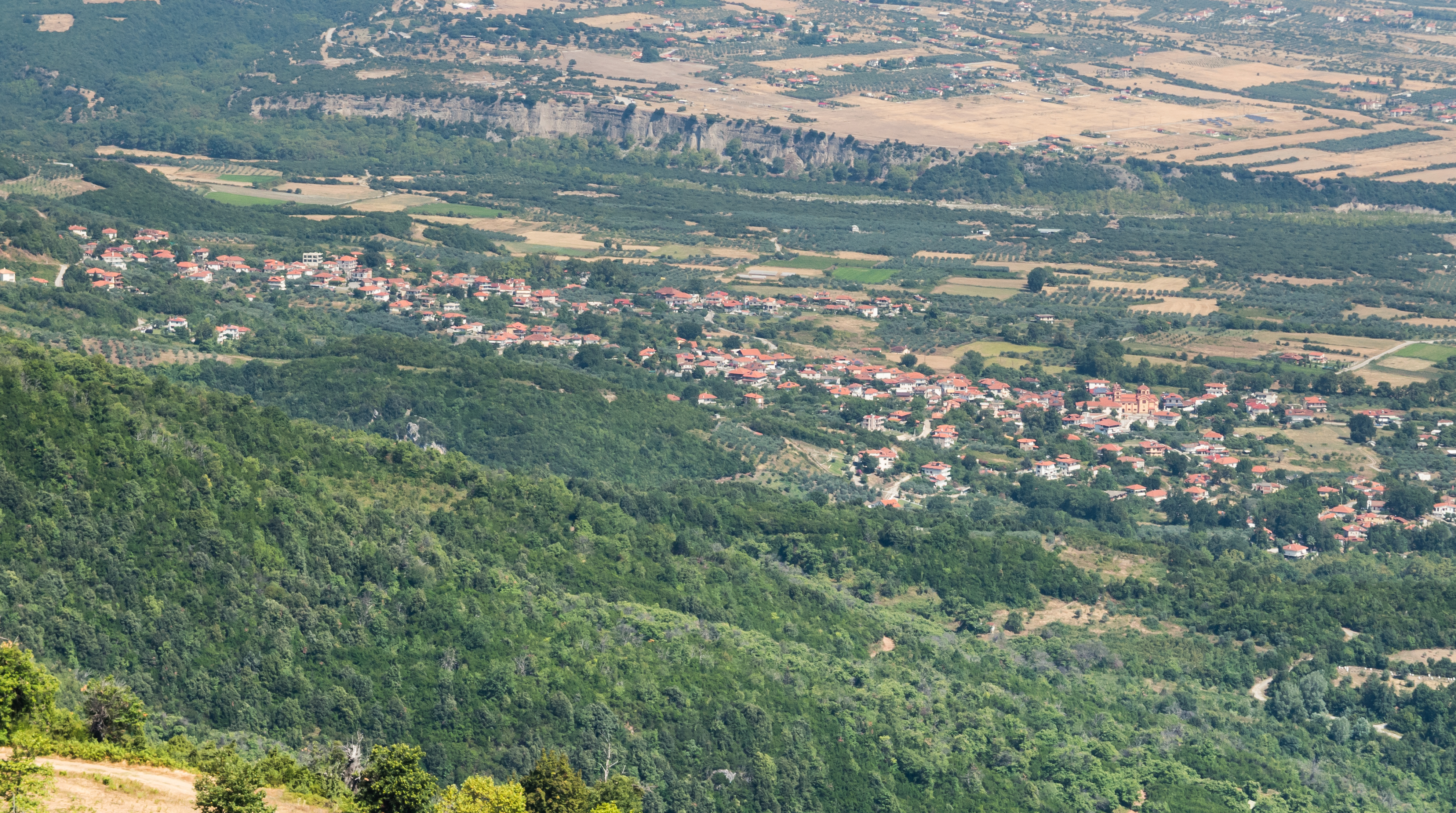 Skotina Pierias (Σκοτίνα Πιερίας) seen from south